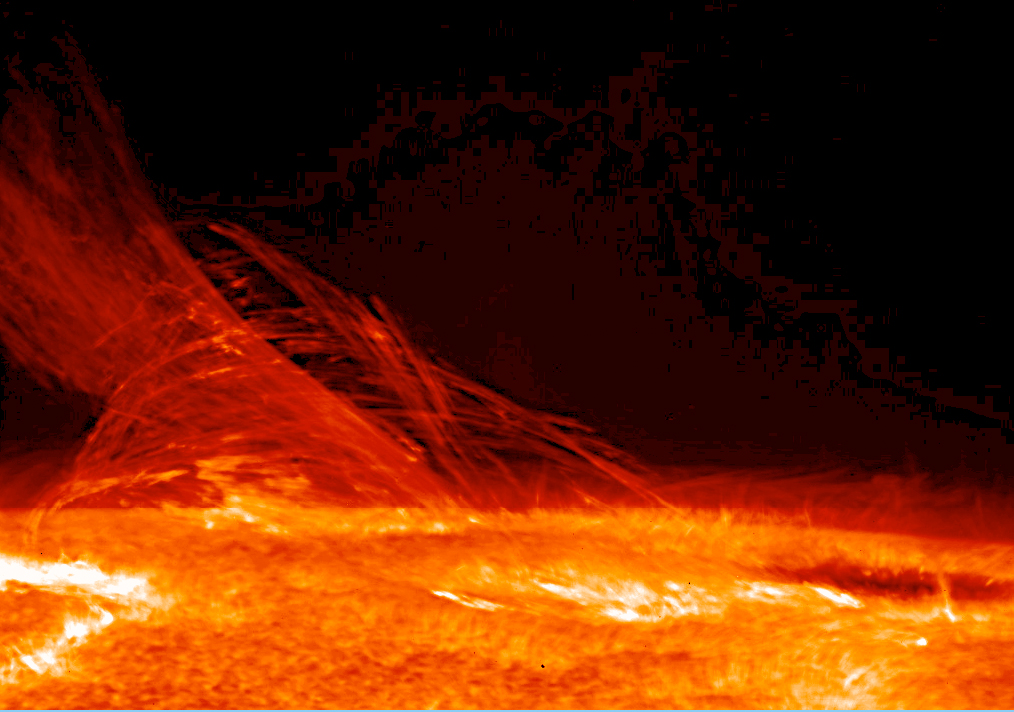 Taken by Hinode's Solar Optical Telescope on Jan. 12, 2007, this image of the sun reveals the filamentary nature of the plasma connecting regions of different magnetic polarity. Hinode captures these very dynamic pictures of the chromosphere. The chromosphere is a thin "layer" of solar atmosphere "sandwiched" between the visible surface, photosphere, and corona.